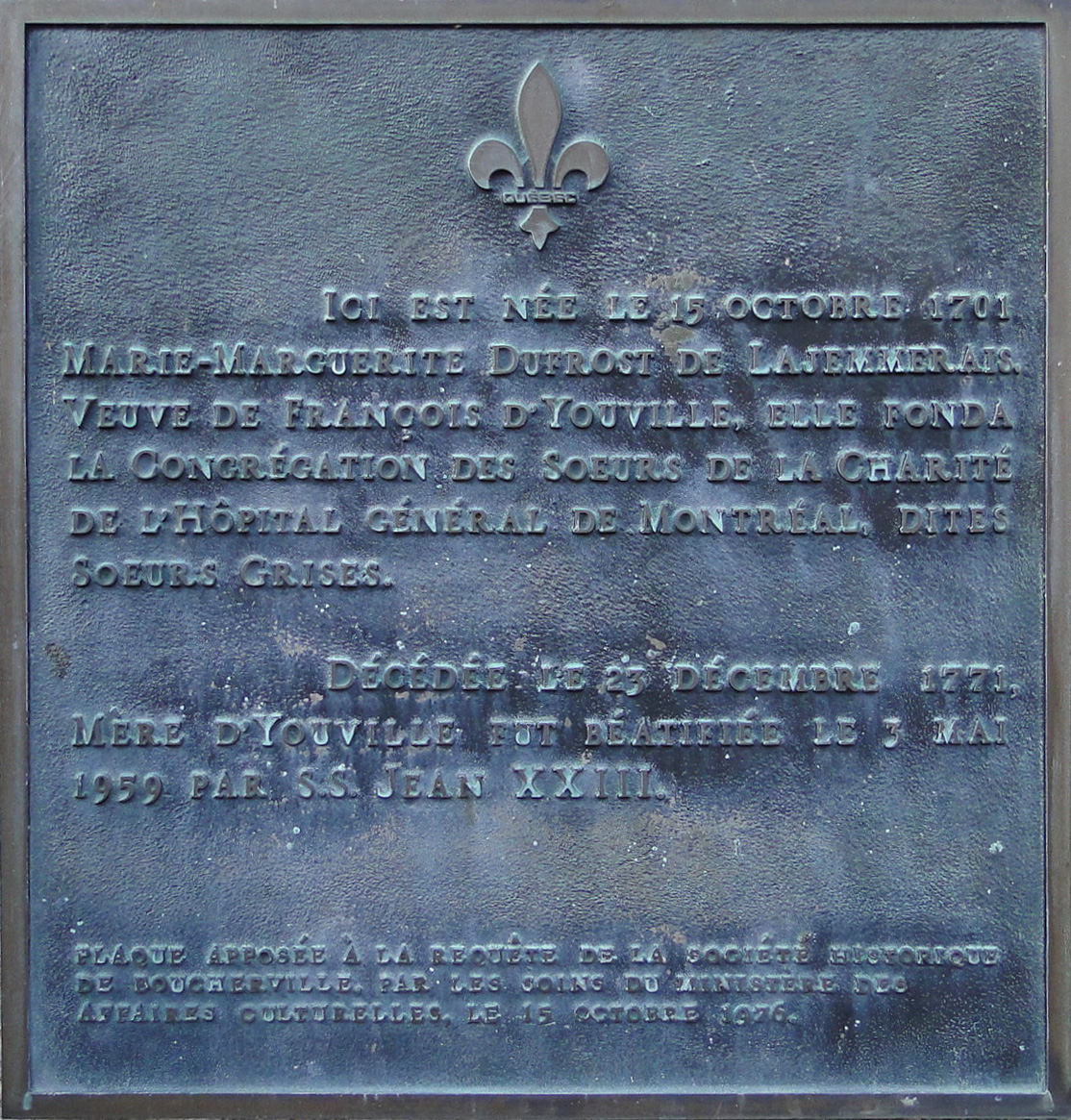 Plaque of Marguerite d'Youville, Varennes, province of Quebec, Canada